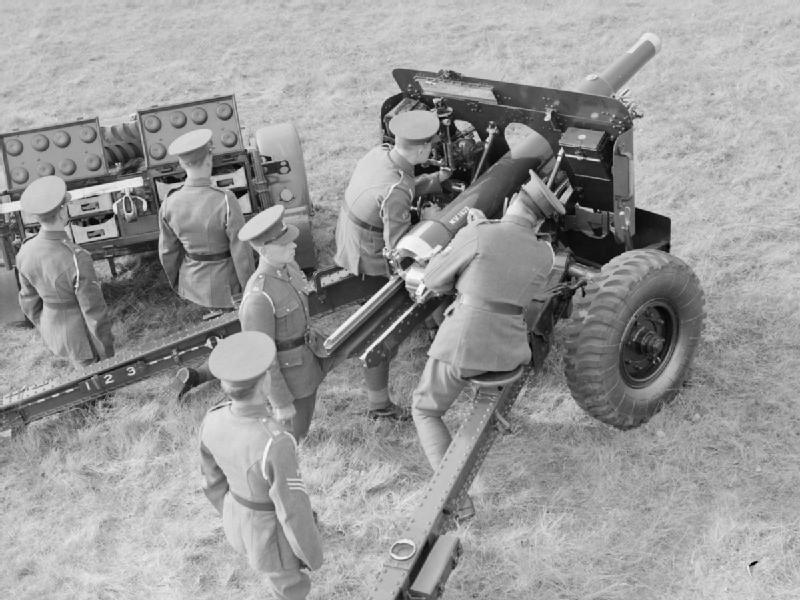 The crew of a Mk. IV 18 pounder Field Gun on Mk V carriage of 96 Field Battery, Royal Artillery, at action stations during a firing exercise.